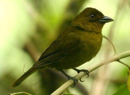 Olive Tanager (Chlorothraupis carmioli) also known as Carmiol's Tanager at Virgen del Socorro, Costa Rica.